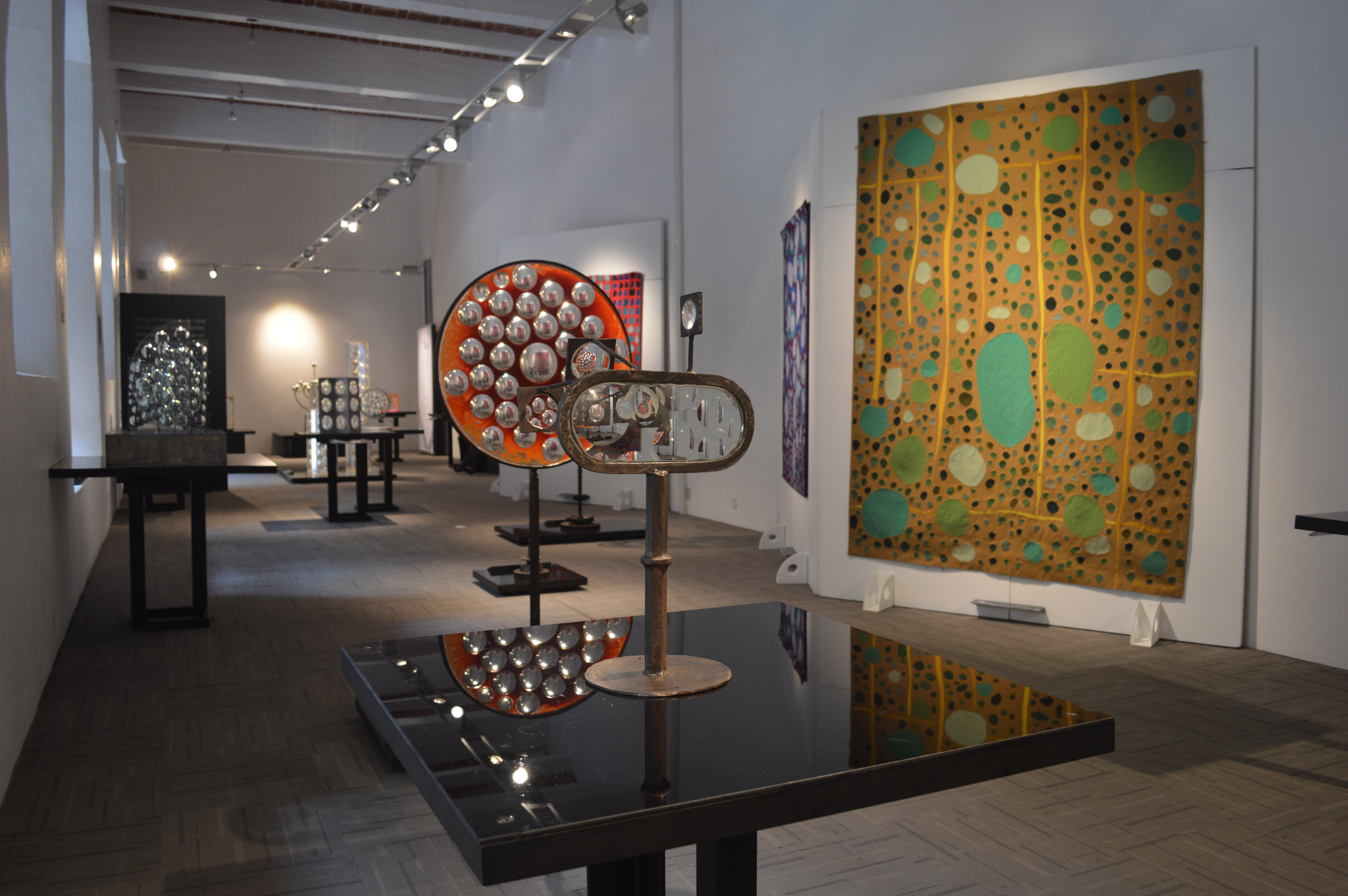 Feliciano Béjar exhibition "Explorador" at the Museo de la Luz in Mexico City